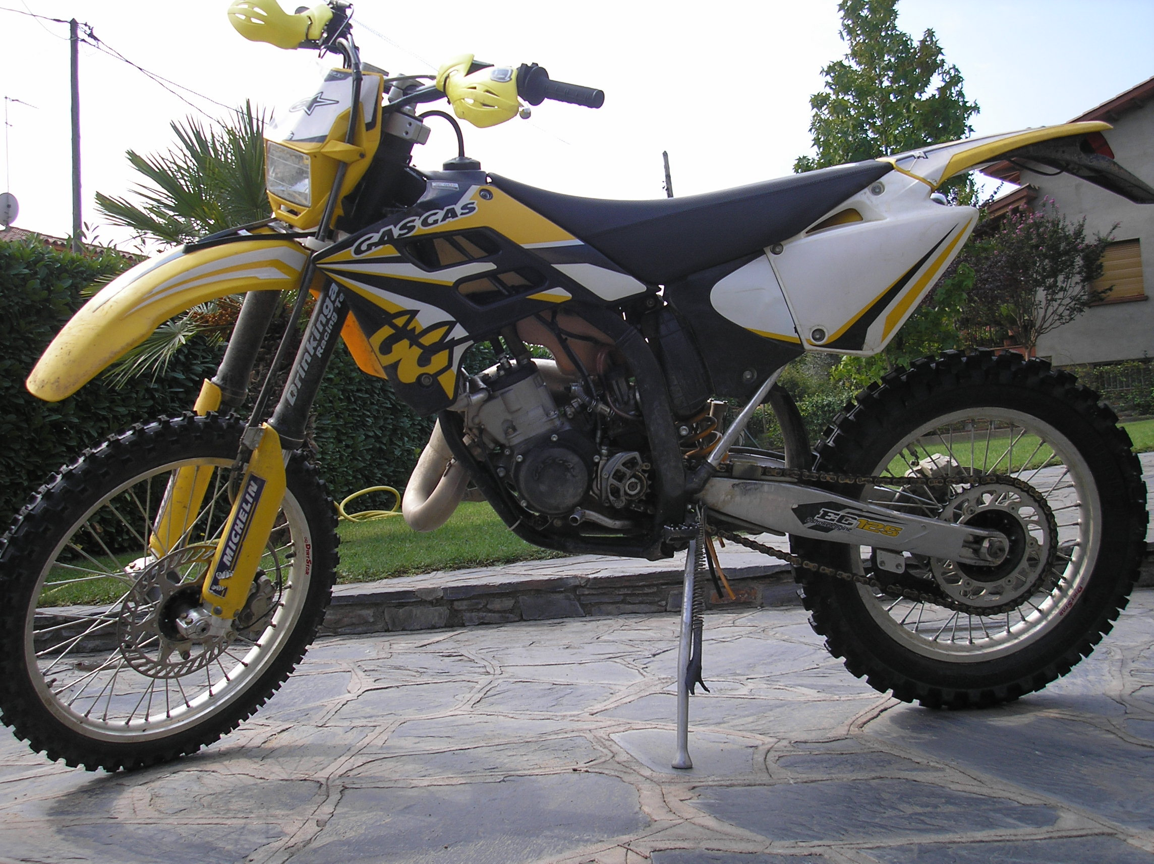 Gasgas Enducross Motorcycle, 125cc. Built on 2006.